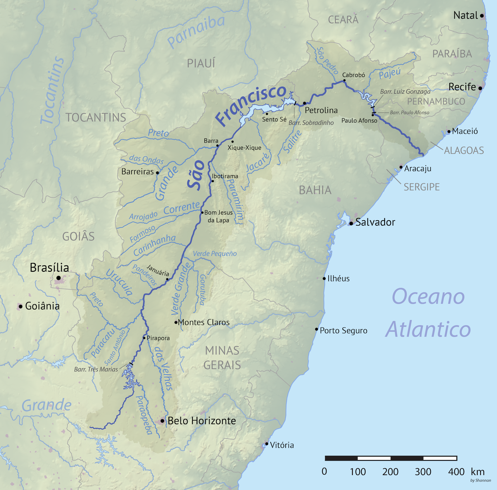 Portuguese version of File:São Francisco basin map.png